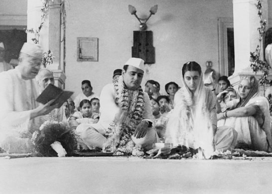 The marriage ceremony of Feroze Gandhi and Indira Nehru at Anand Bhawan, Allahabad.